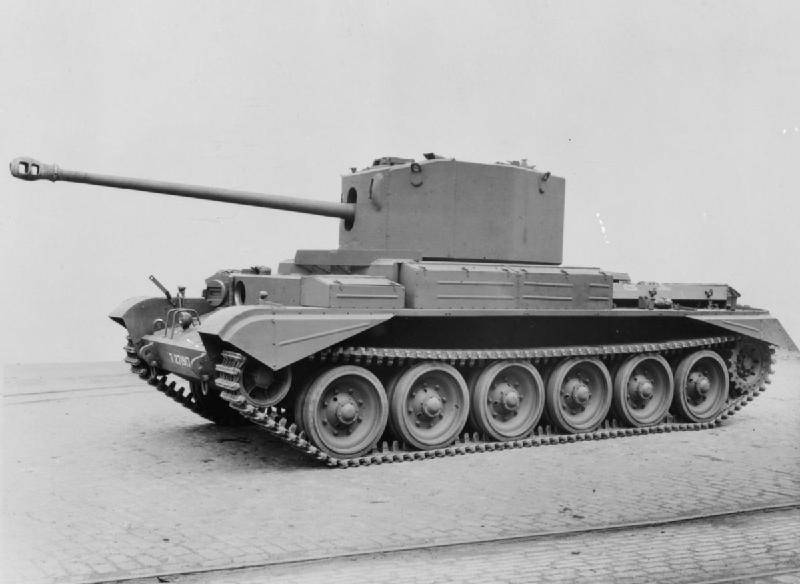 Tanks and Afvs of the British Army 1939-45 Cruiser tank Challenger (A30). Standard production.